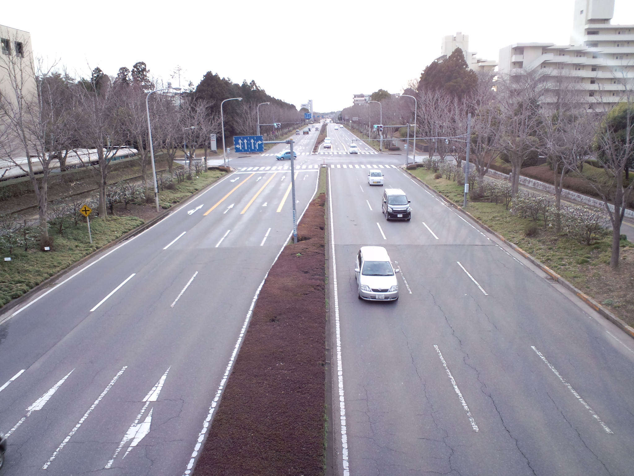 Kita-odori (part of the Ibaraki Prefectural Road Route 244) in Amakubo 1-chome, facing southwest